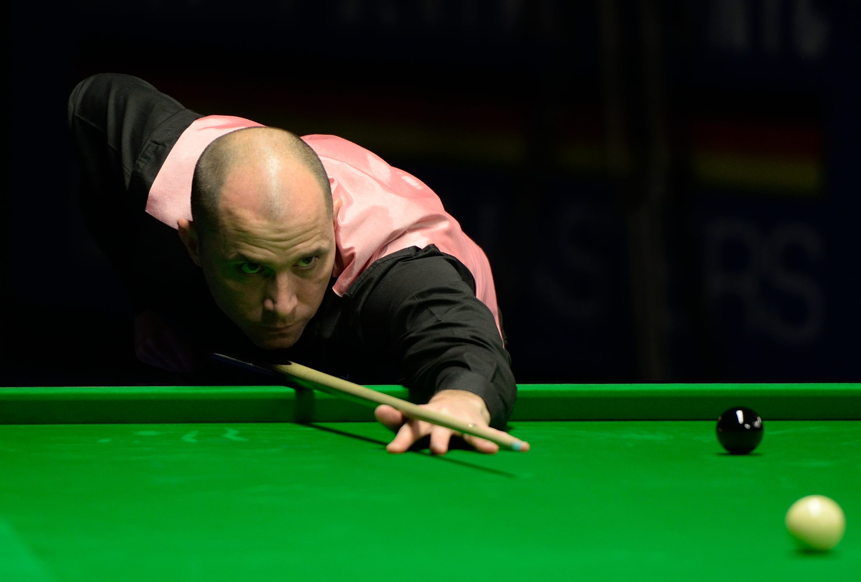 Picture taken in Berlin during the Snooker German Masters in 2015. Joe Perry.